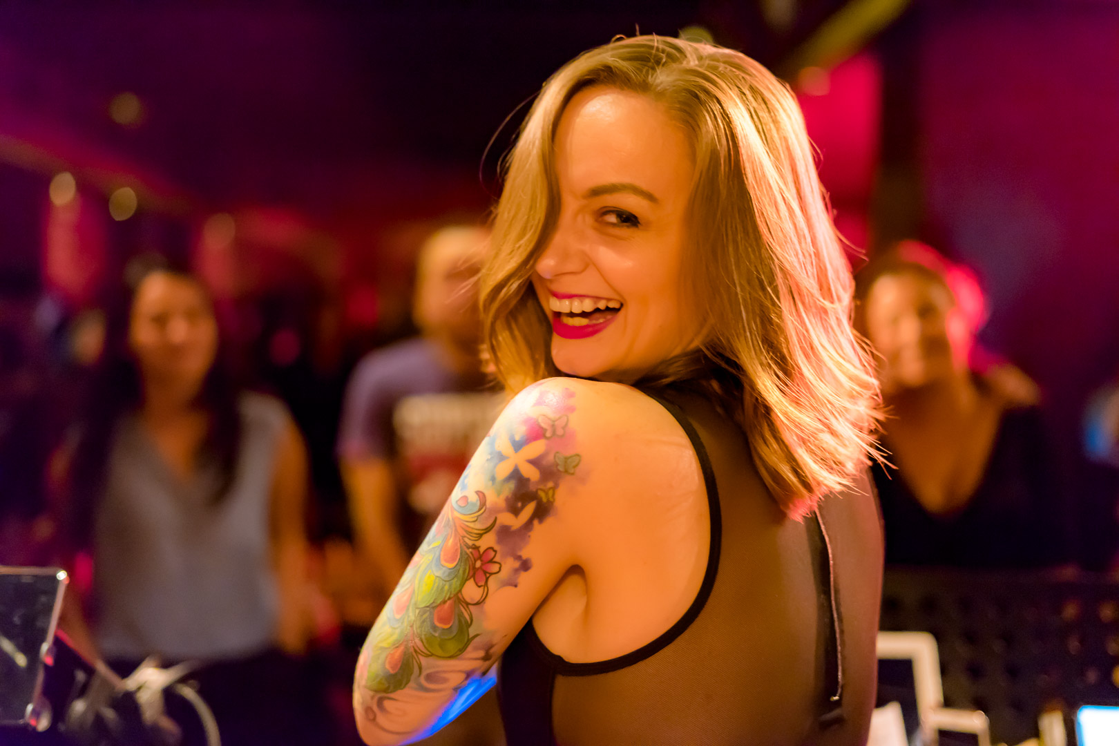 Singing at The Dutch Jakarta.